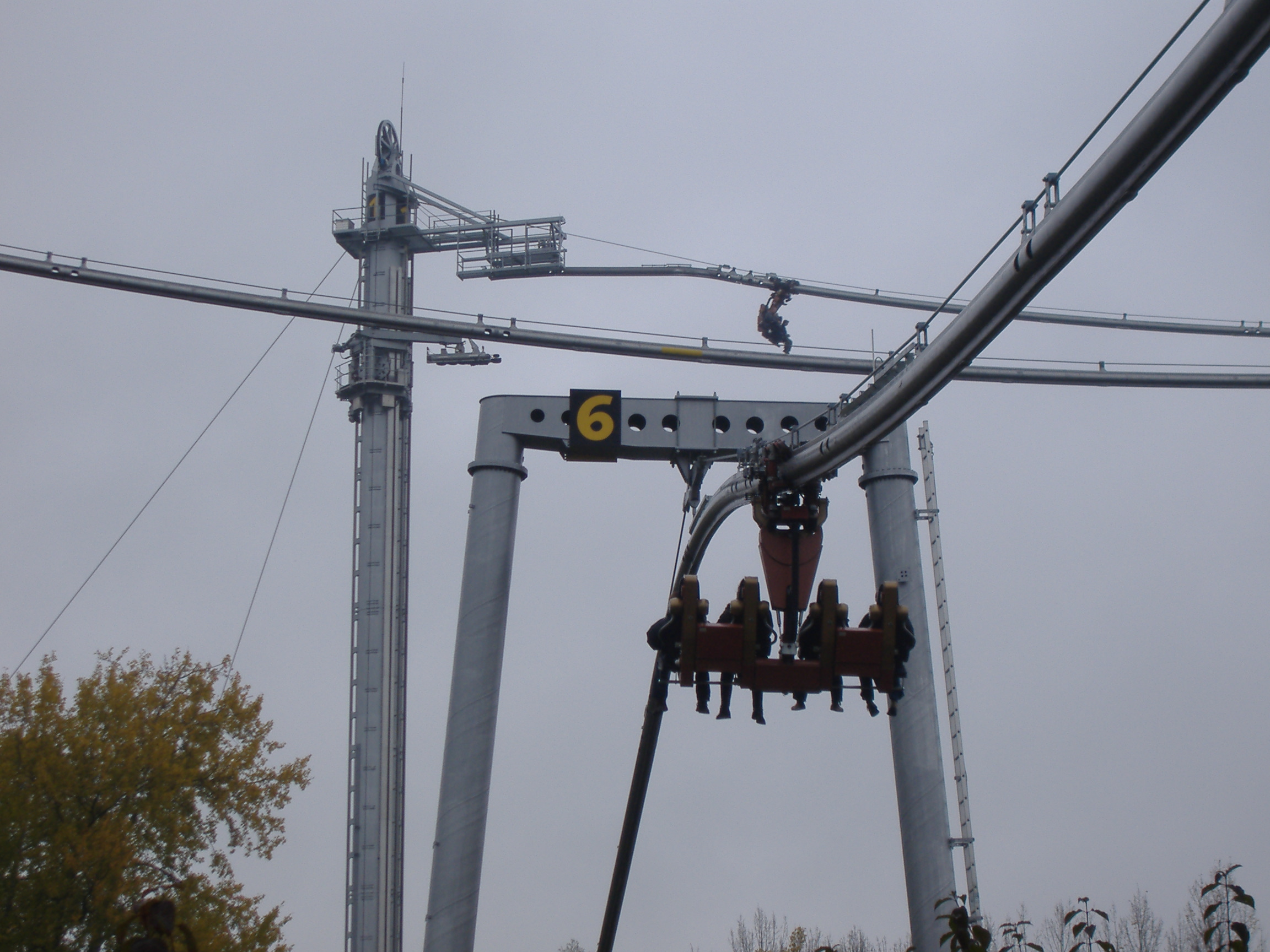 Vertigo at Walibi Belgium